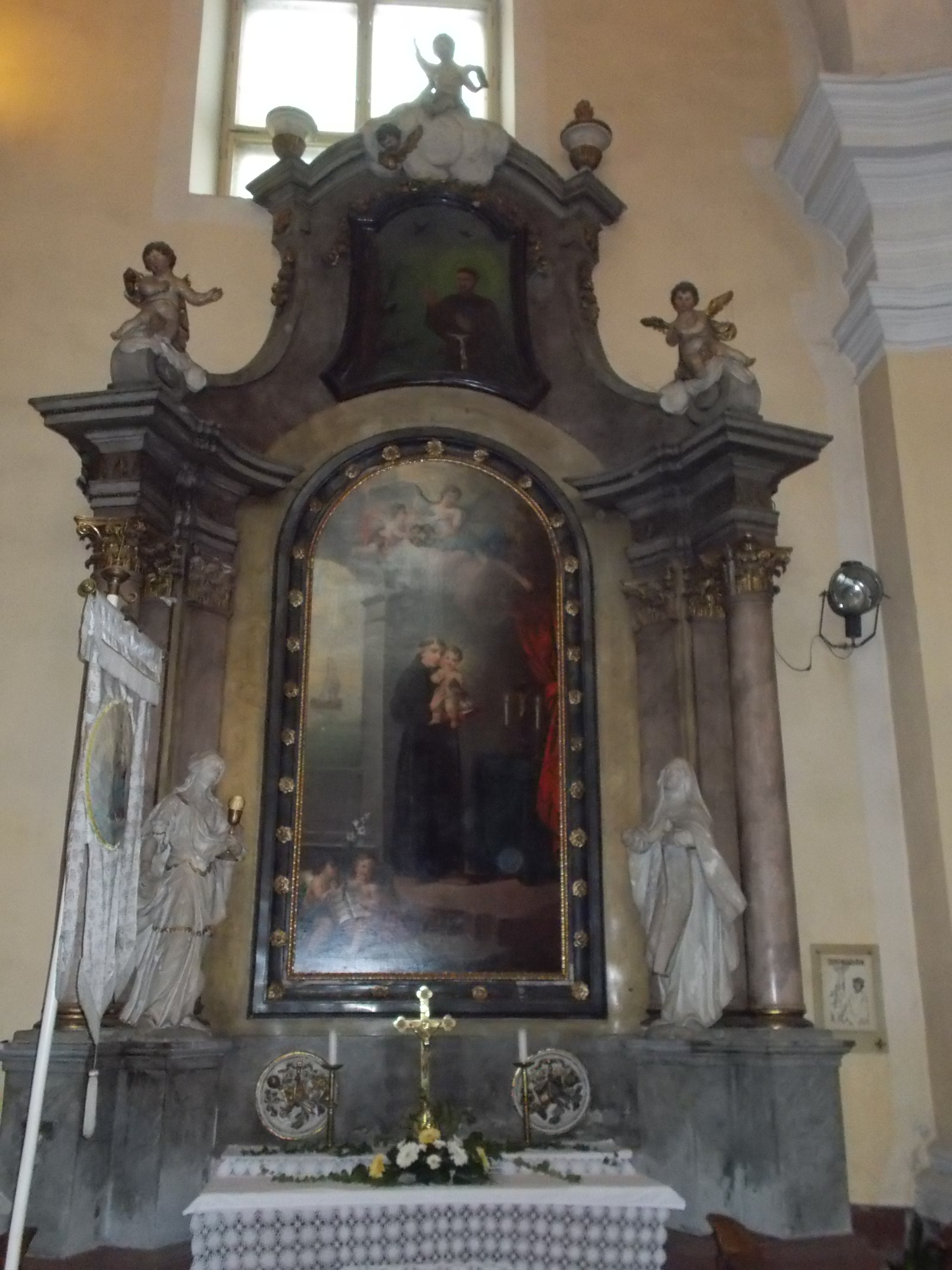 Saint Catherine Church. Saint Anthony of Padua altarpiece (Károly József Schöfft, 1816), Statues of Saint Barbara and Saint Catherine – Attila Street, Tabán, Budapest